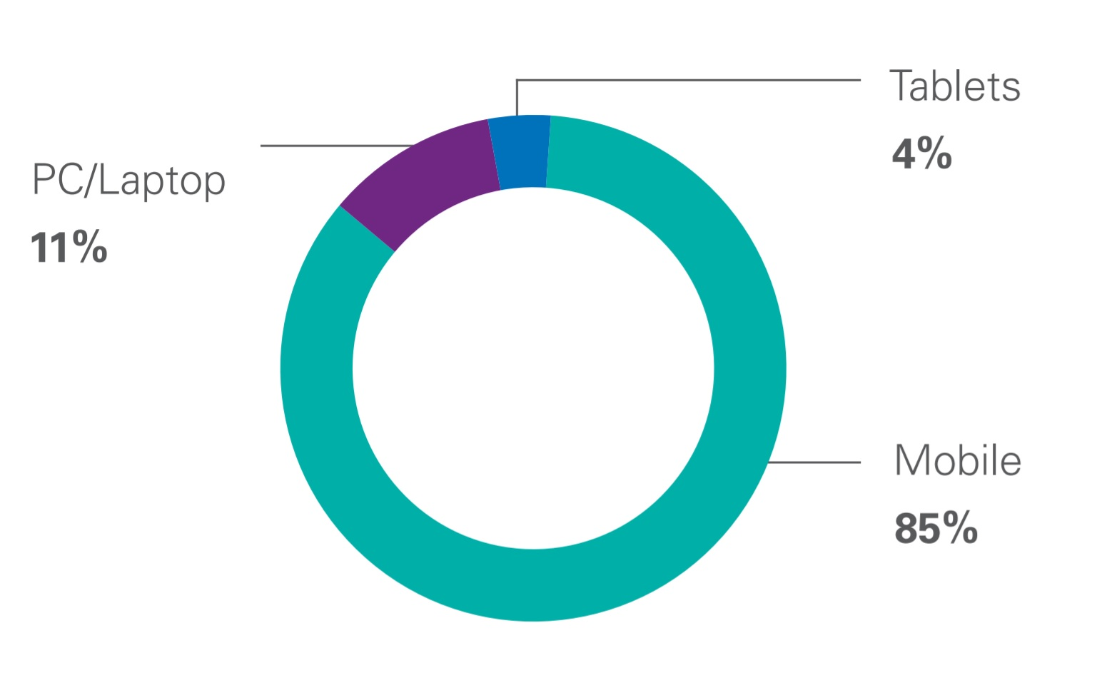 Games market of India by revenue per platform in FY 2017